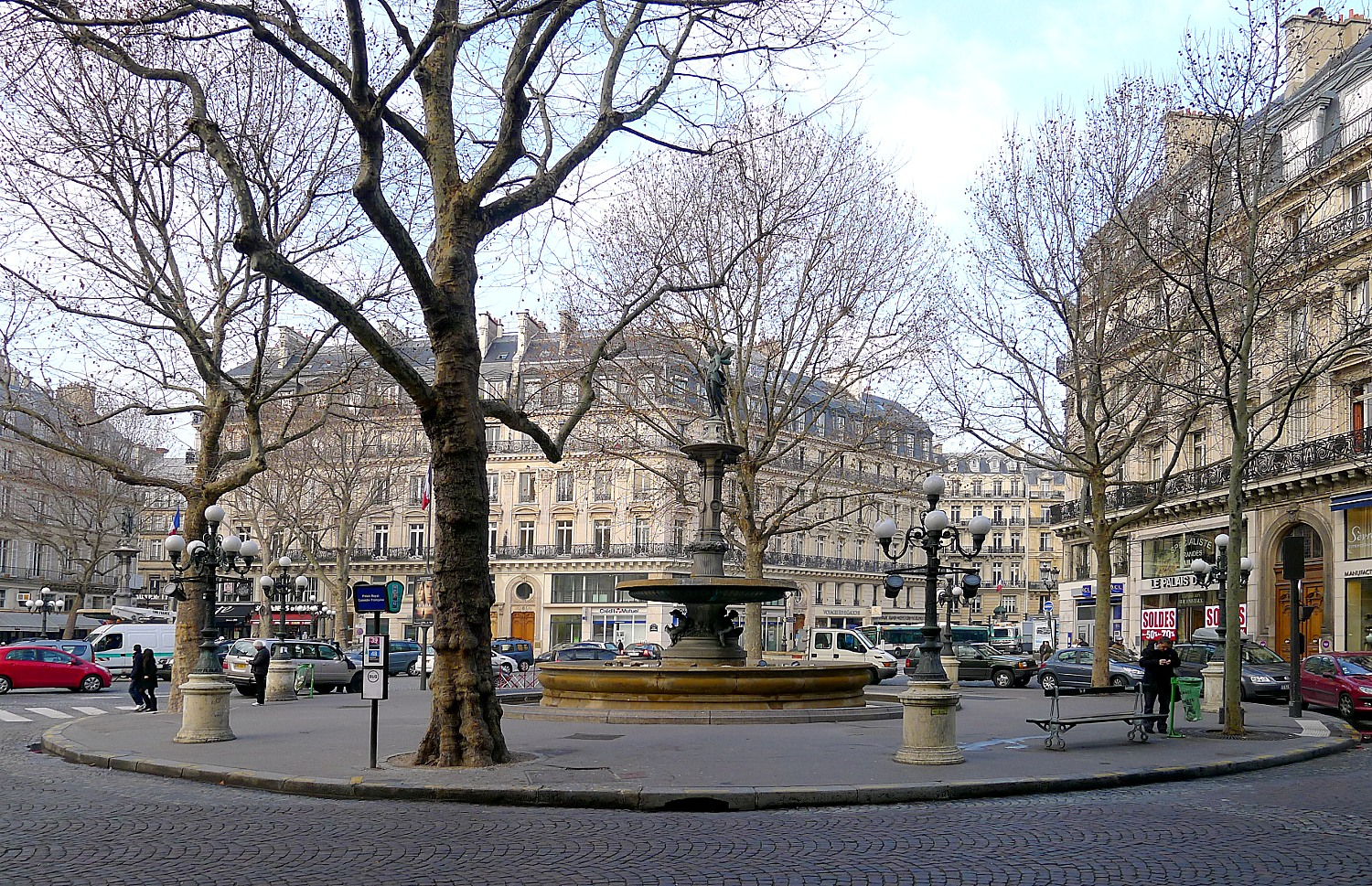 Andre Malraux place - Paris